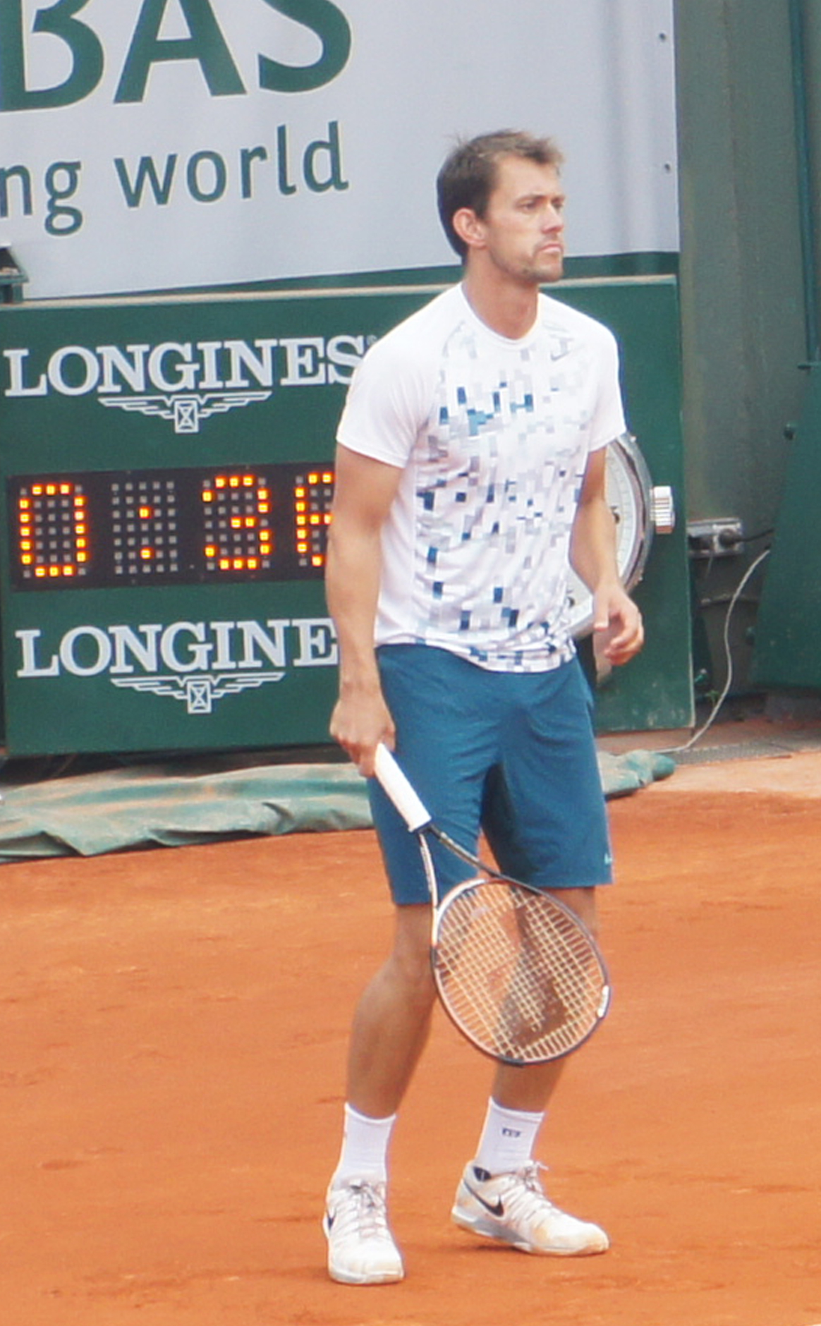 2nd french open 2013 with Dimitrov